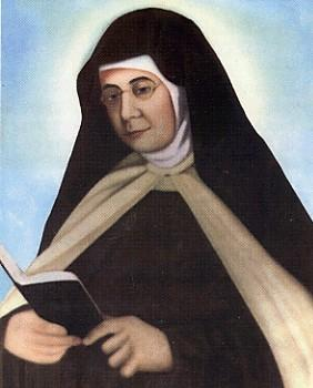 Clara del Carmen Quirós